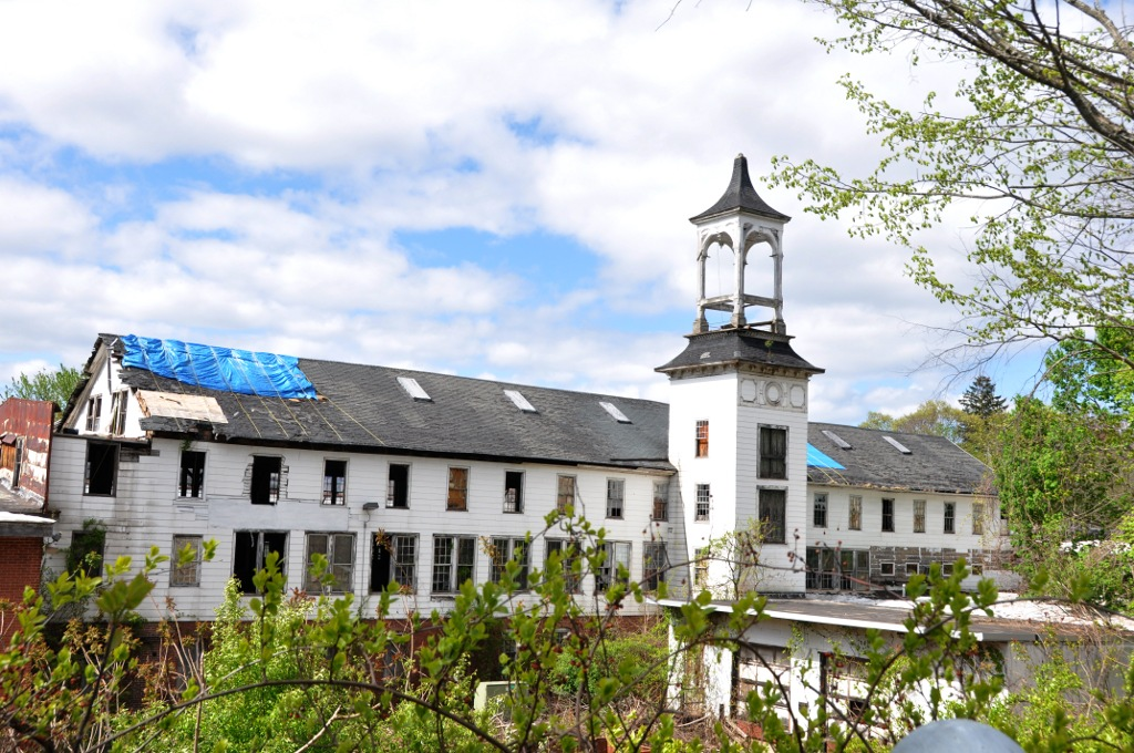 The main factory complex in the Talcottville Historic District of Vernon, Connecticut.